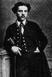 Gabriel Fauré (1845-1924) in 1860.